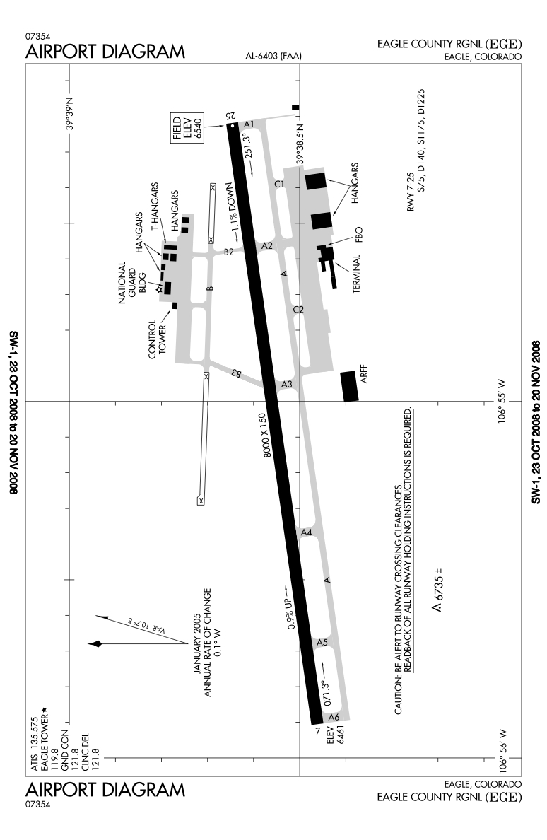 FAA diagram of EGE, courtesy of